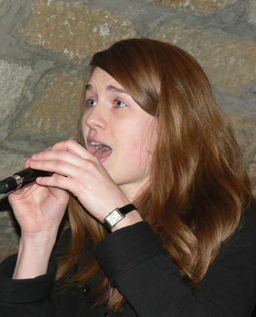 Karosi Júlia 2009